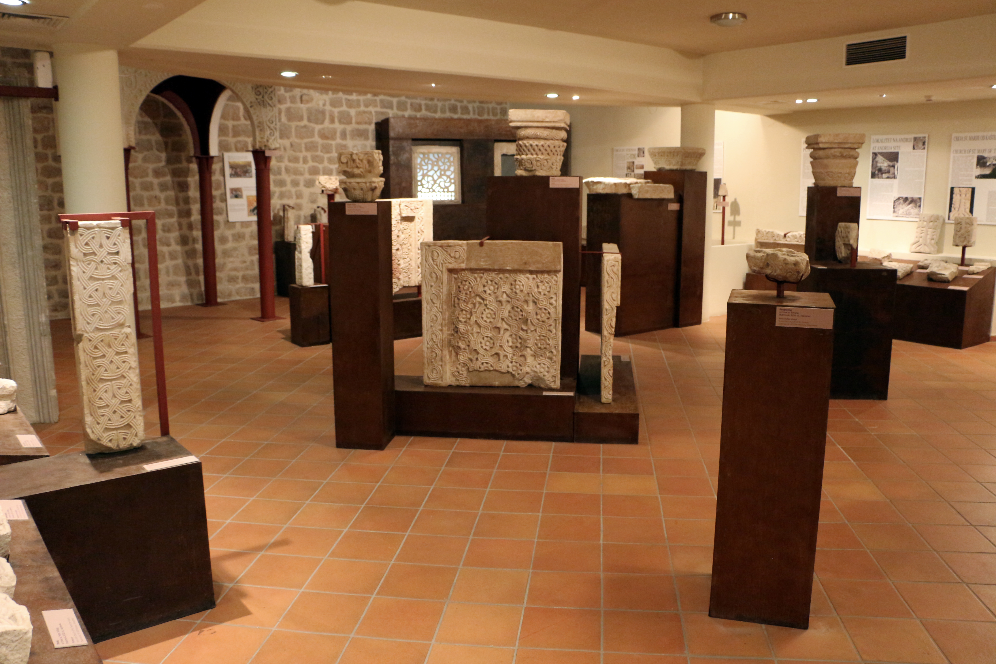 The Rivelin Archaeological collection in Dubrovnik